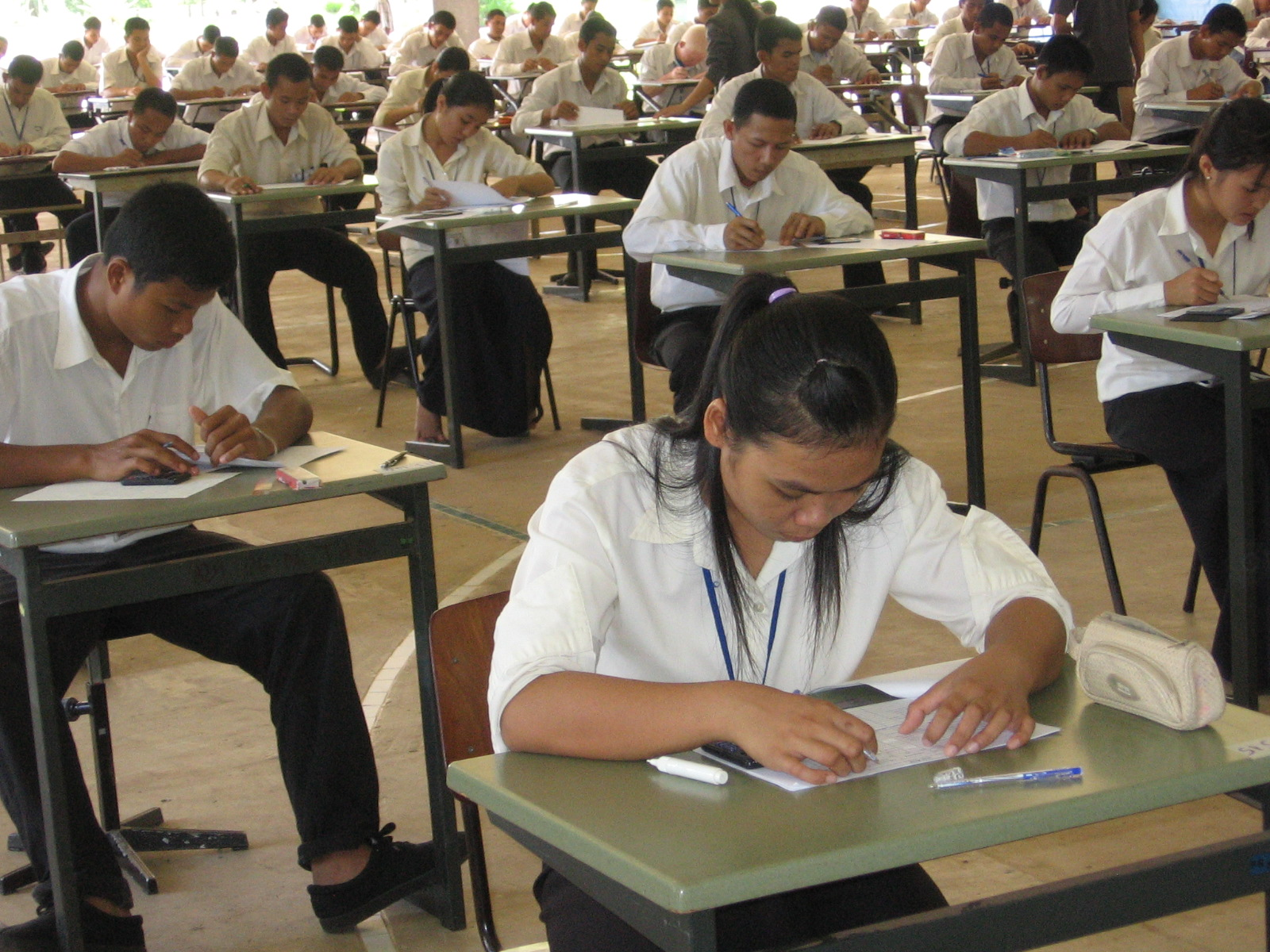 Young Cambodians doing an exam to be admitted in the Don Bosco Technical School of Sihanoukville.